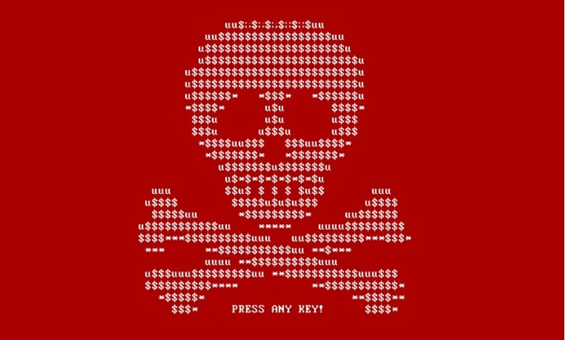 Screenshot of the splash screen of the payload of the original version of Petya.